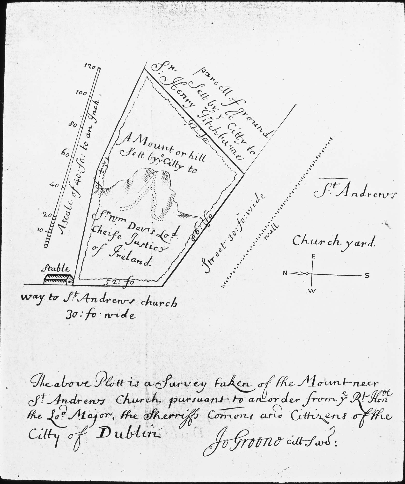 On behalf of all the Marys we wish you a happy Easter and for those in Ireland enjoy the ceremonies! Today we have a survey sketch of the area around St. Andrews Church Dublin, with some interesting notations. With thanks to [/photos/angeljim46/ AndyBrii], [/photos/129555378@N07/ sharon.corbet], [/photos/23885771@N03/ RETRO STU] and [/photos/91549360@N03/ O Mac], we have some context for those notes. In particular, it's suggested that the surveyor's signature at the bottom is that of John Greene, who was Dublin's first City Surveyor - appointed in 1679. The two main survey subjects are the site of St Andrew's Church, and the "mount or hill" in the centre. St Andrew's Church was first built in the 1660s in the Dame Street/College Green area of the city. The hill was likely the 10th century Viking "Thingmount" (Thingmote); a conical mound which was an assembly point of legal/cultural importance for the city's original Norse inhabitants. This survey is likely one from 1682 - not long before William Davies (mentioned by name on the survey) had the site flattened to develop the area. See: - The Thingmount of Dublin - Royal Inauguration in Gaelic Ireland C. 1100-1600 (page 46) Photographer: Thomas H. Mason Collection: Mason Photographic Collection Date: Lantern slide 1890-1910. Sketch itself from 1682. NLI Ref: M27/1 You can also view this image, and many thousands of others, on the NLI’s catalogue at